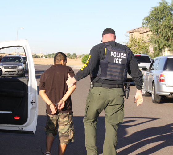 This photo shows an ICE agent making an arrest. It was released in conjunction with Operation Pipeline Express. Operation Pipeline Express (press release) was an action carried out by Homeland Security Investigations, a branch of U.S. Immigration and Customs Enforcement. Officials announced the discovery of a large drug trafficking operation from Mexico into Arizona.